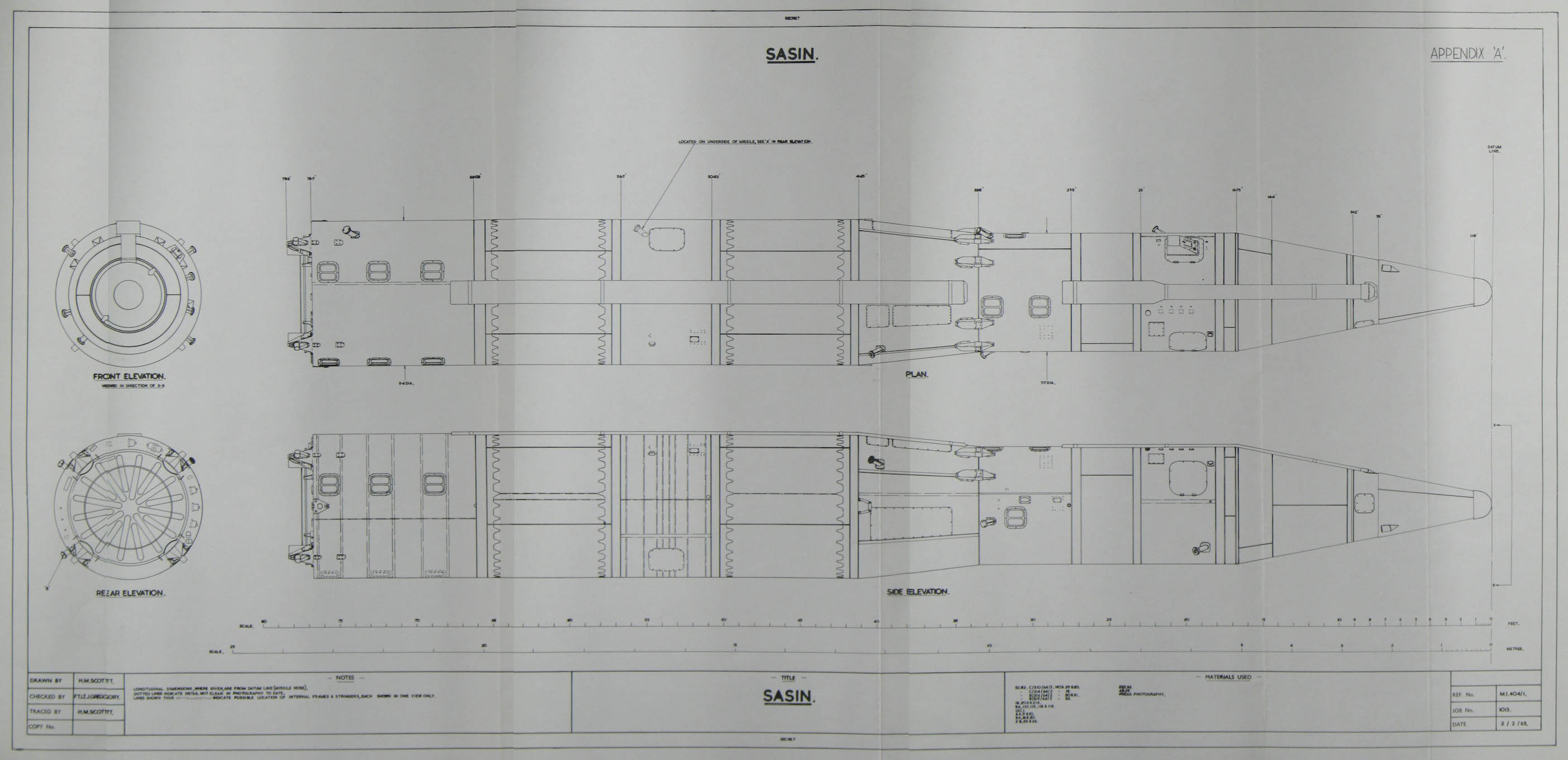 A mobile ICBM carried aboard a truck in the Red Square May Day Military Parade 1964. This missile (Soviet designation R-26) was initially classified as a SS-8 Sasin. However it was later discovered to be an altogether different missile from the SS-8 (Soviet designation: R-9 Desna). The mistaken NATO designation of SS-8 Sasin was never changed, and subsequently caused some confusion amongst Soviet-watchers. This photograph of a declassified UK Ministry of Defence dyeline print published in DEFE 44/158 available to view in The National Archives, Kew, London. The image has been stitched together from four segments and retouched merely to straighten it up and remove the distortion created by the camera lens. Shooting as four segments was necessary because of the very large drawing size and the limited space and facilities available. The drawing was created by UK Ministry of Defence draughtsman H.M.Scott based on intelligence, personal observation by Allied embassy military attachés, and photographs taken of equipment seen in a Moscow Red Square May Day Military Parade 1964, and possibly other intelligence sources. The National Archives file is no longer classified and is in the public domain. UK Crown Copyright expired after 50 years.